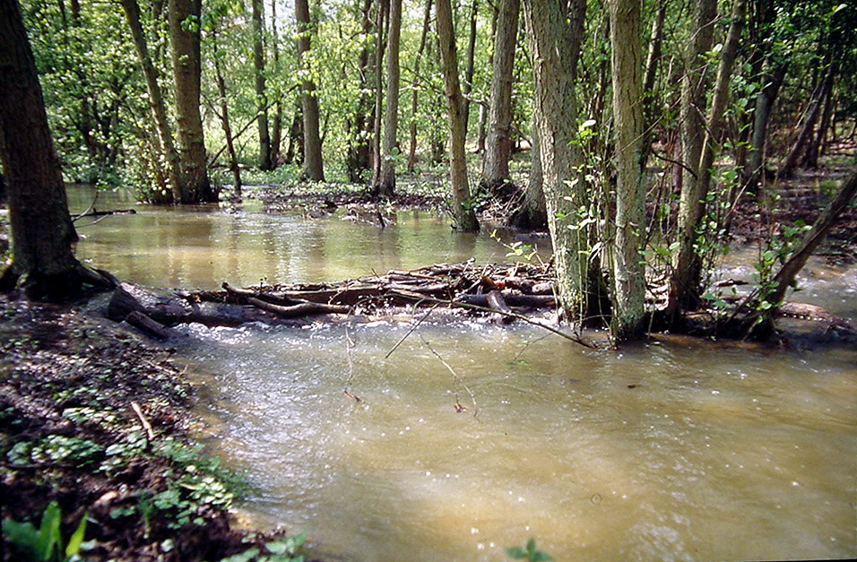 Forest of Rihoult-Clairmarais near Saint-Omer in the north of France.